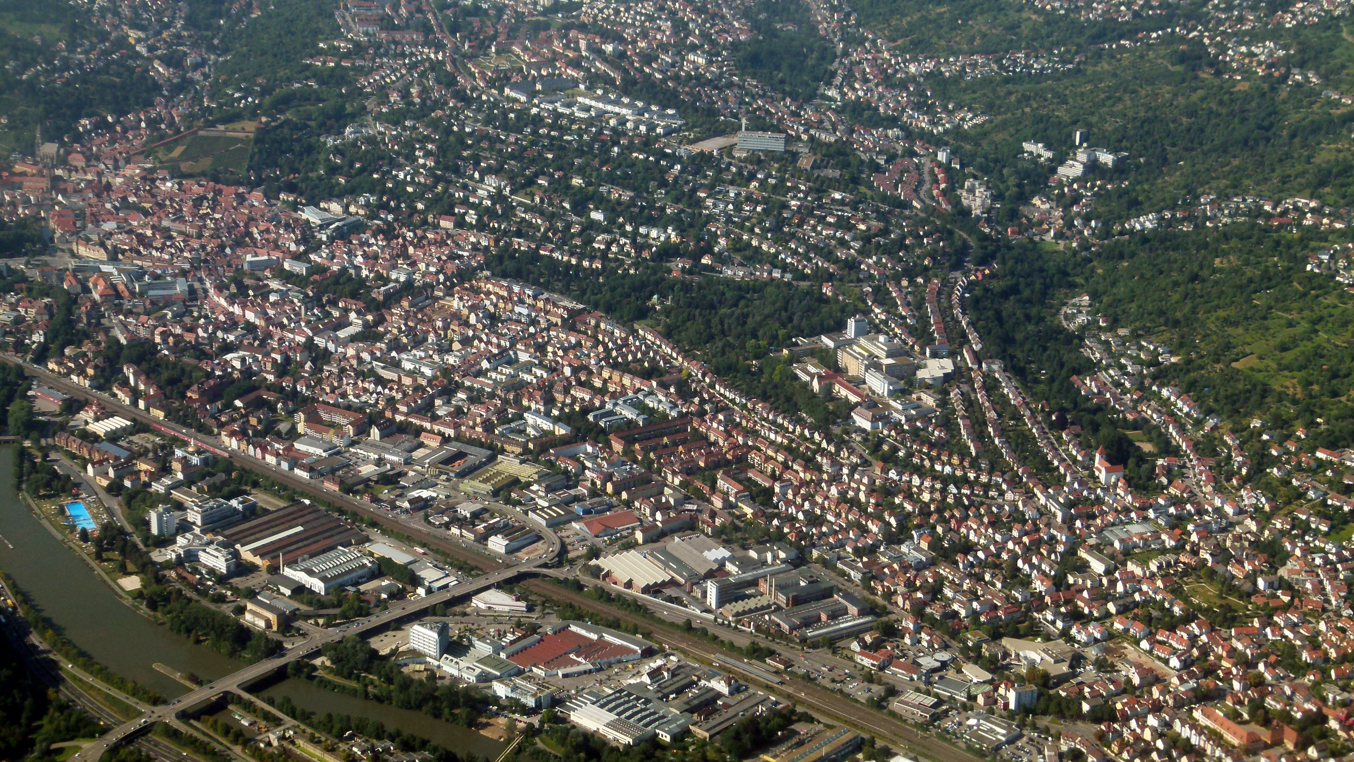 Aerial View of Esslingen